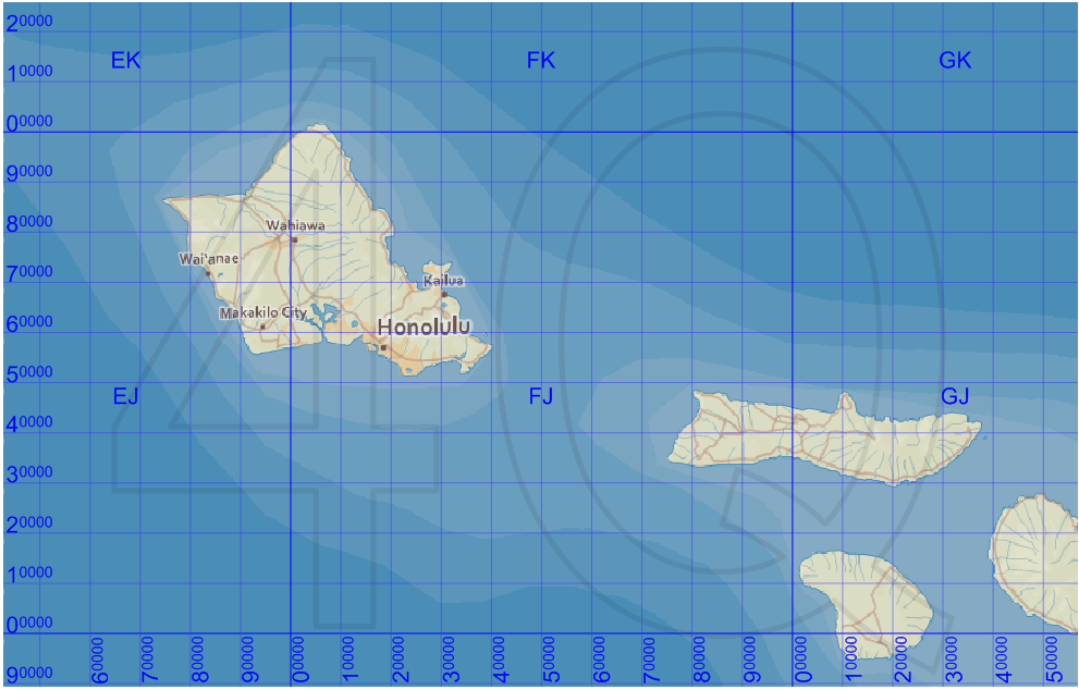 Map of the Military Grid Reference System (MGRS) around Hawaii, with the AA lettering scheme for the 100 km squares. This scheme is used for WGS 84 and some other modern geodetic datums, while the alternative AL lettering scheme is used for some older geodetic datums.